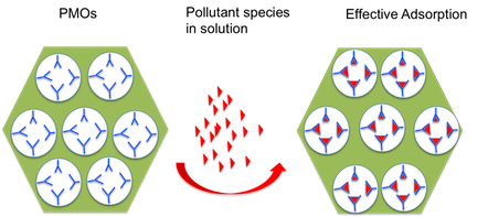 example of nanoengineered adsorbent